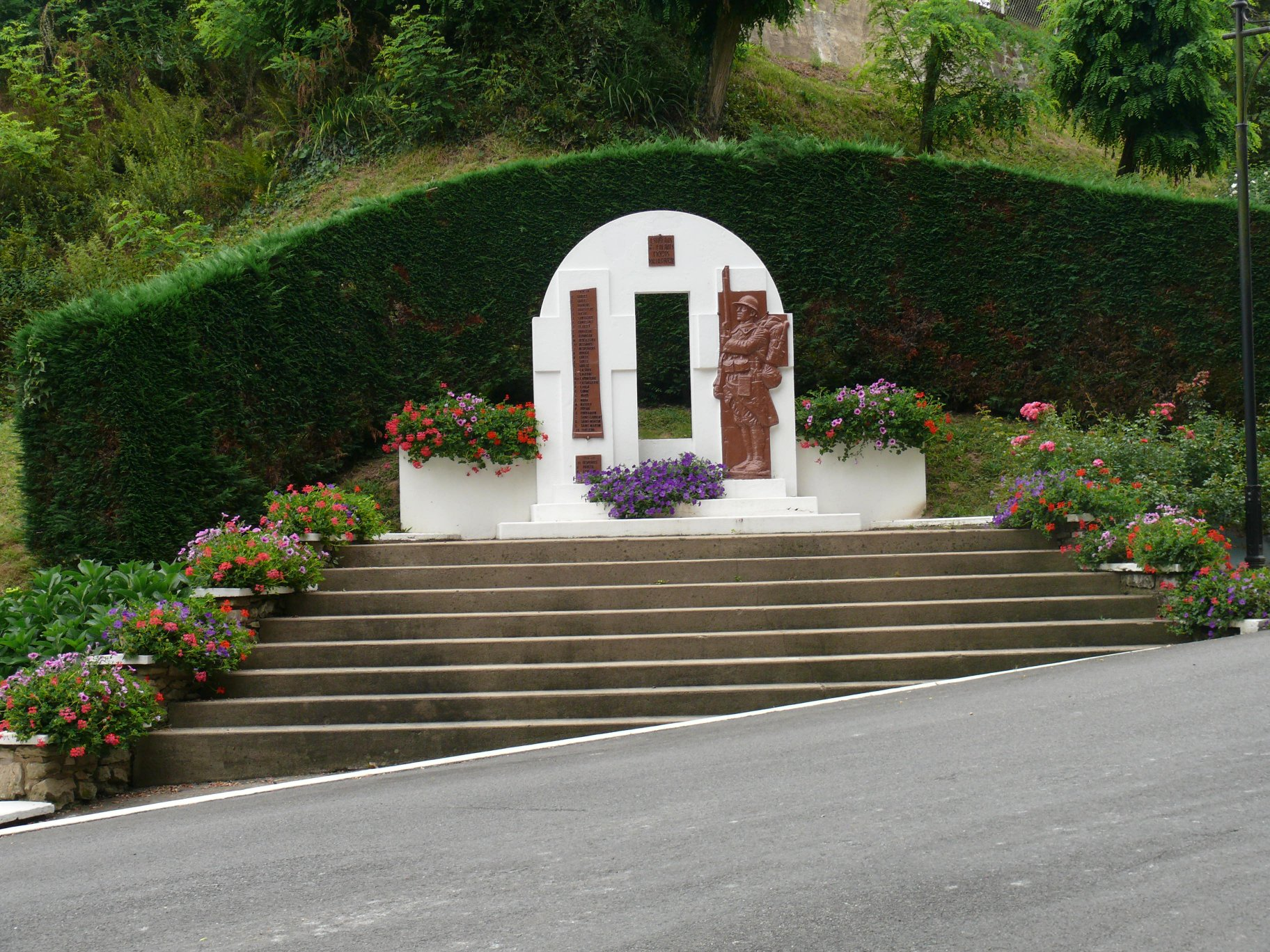 The memorial of Estibeaux (Landes, Aquitaine, France).